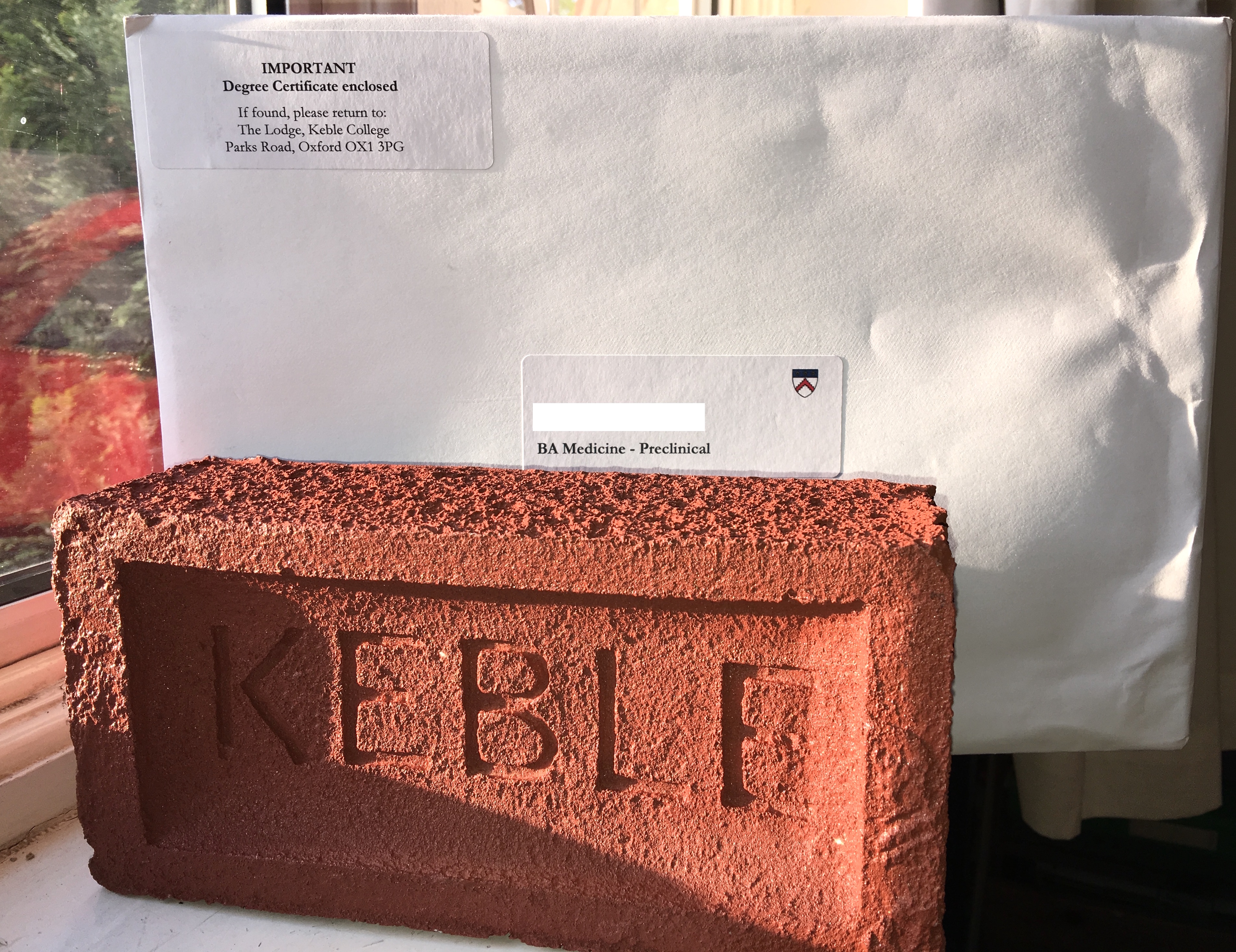 This is a brick that appears to be made from styrofoam and is given to each graduate along with the degree on the graduation day.